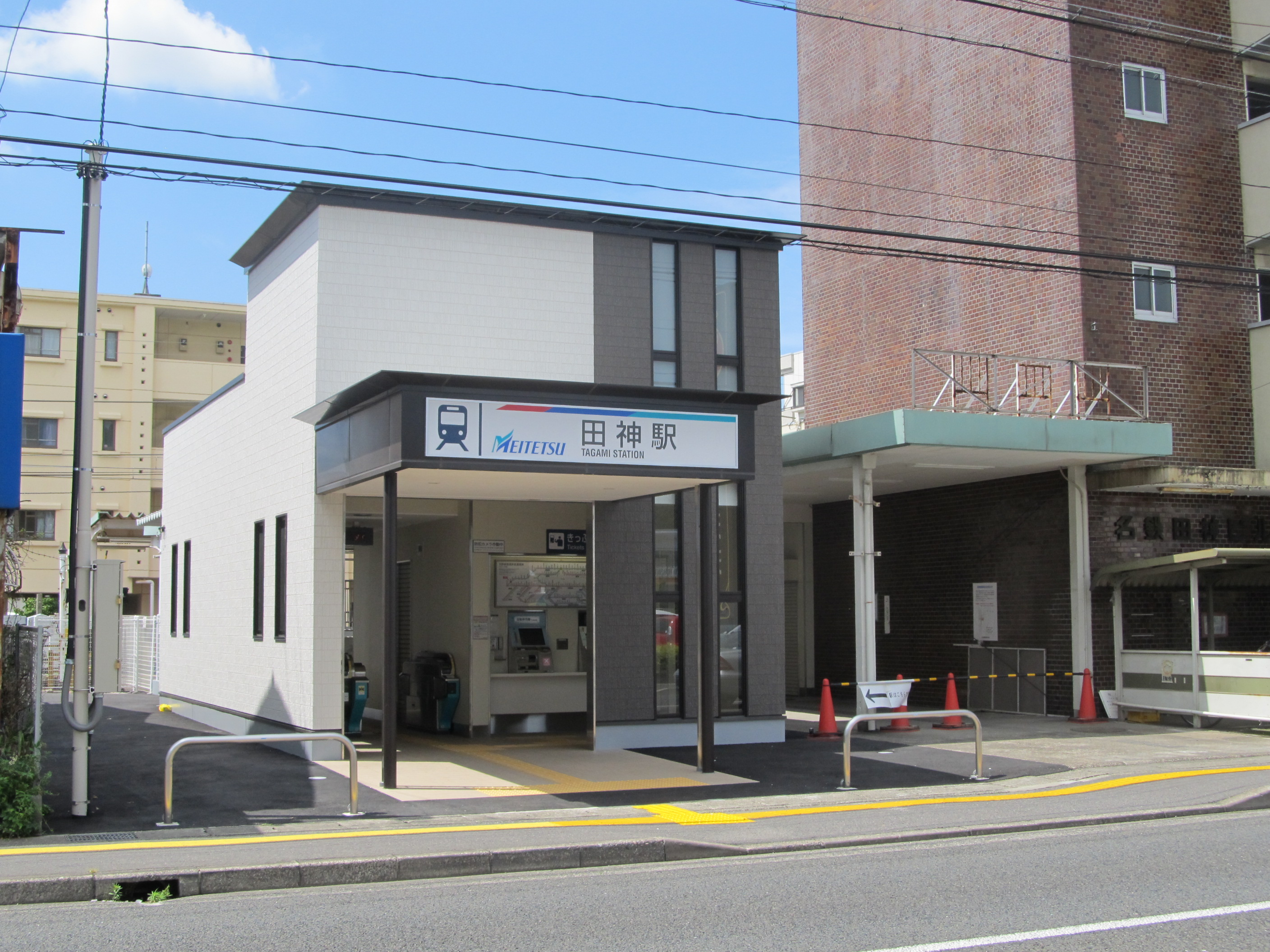 Nagoya Railroad Kakamigahara Line Tagami Station Building